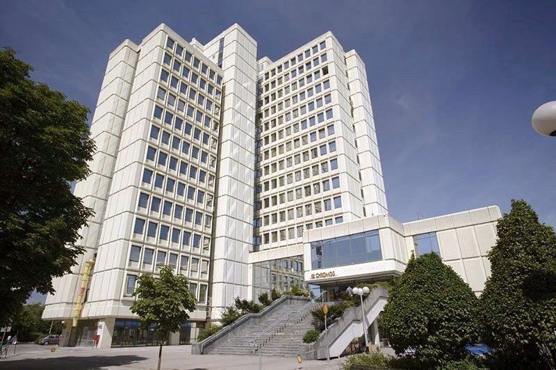 Business Centre Chromos Zagreb - Architect Marijan Turkulin